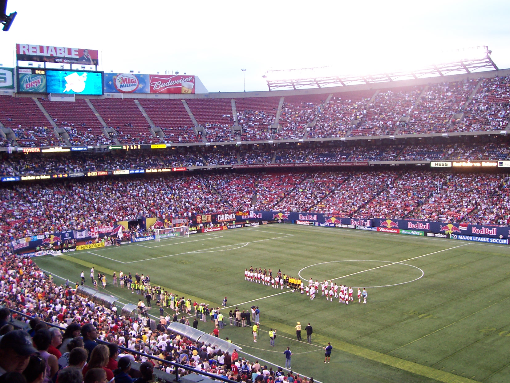 New York Red Bulls Playing At Giants Stadium